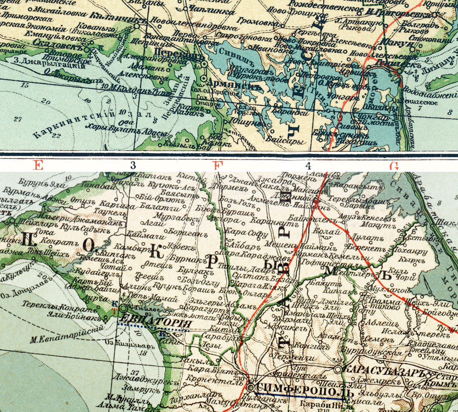 County Map of Perekop Tauride province, 1903